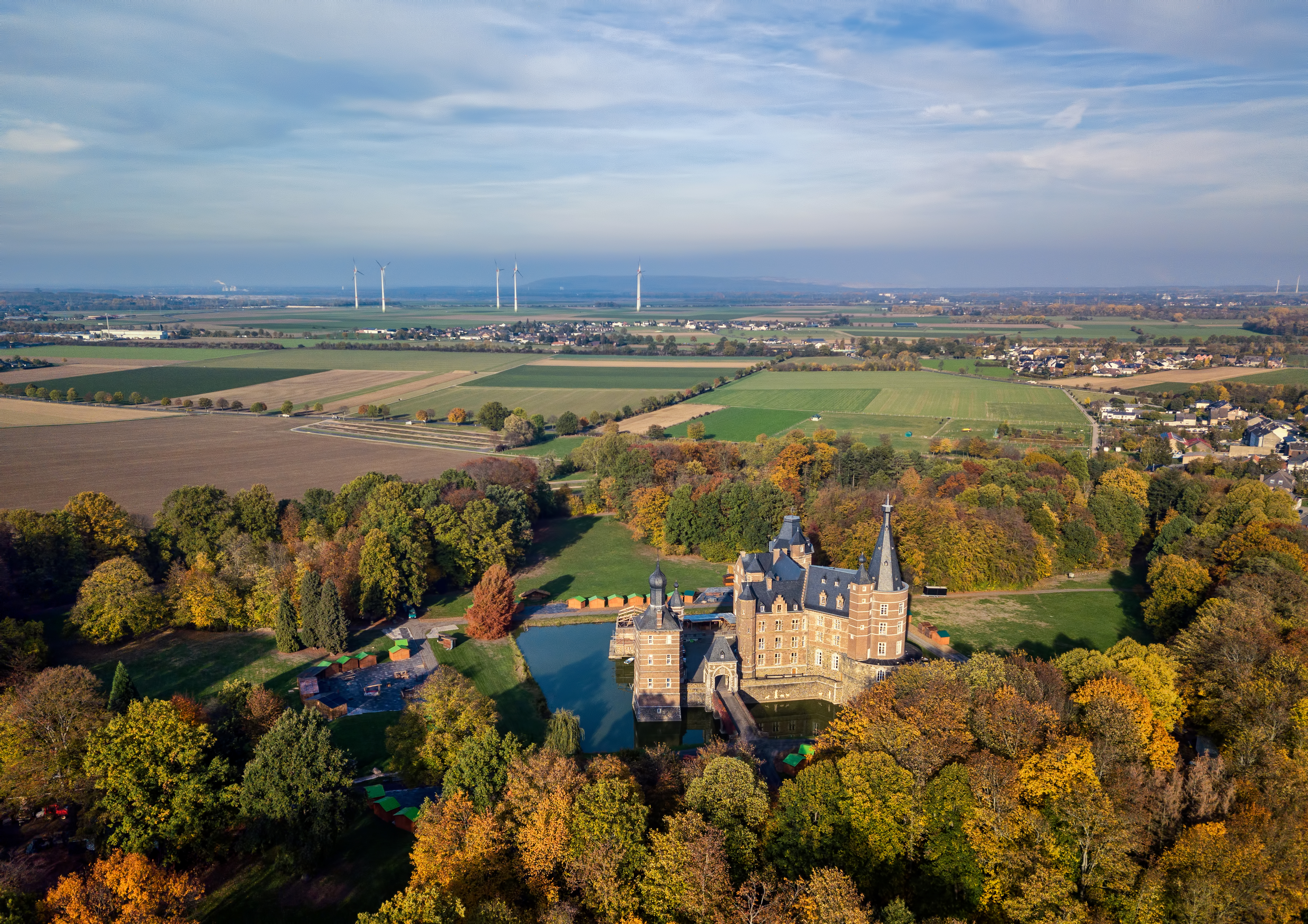 This is a photograph of an architectural monument., no. 18